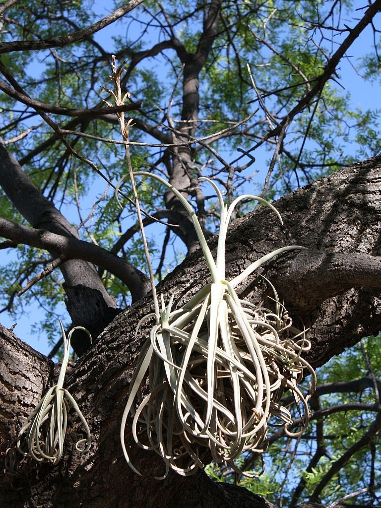 Tillandsia duratii, in habitat in Peru, exact location unknown.